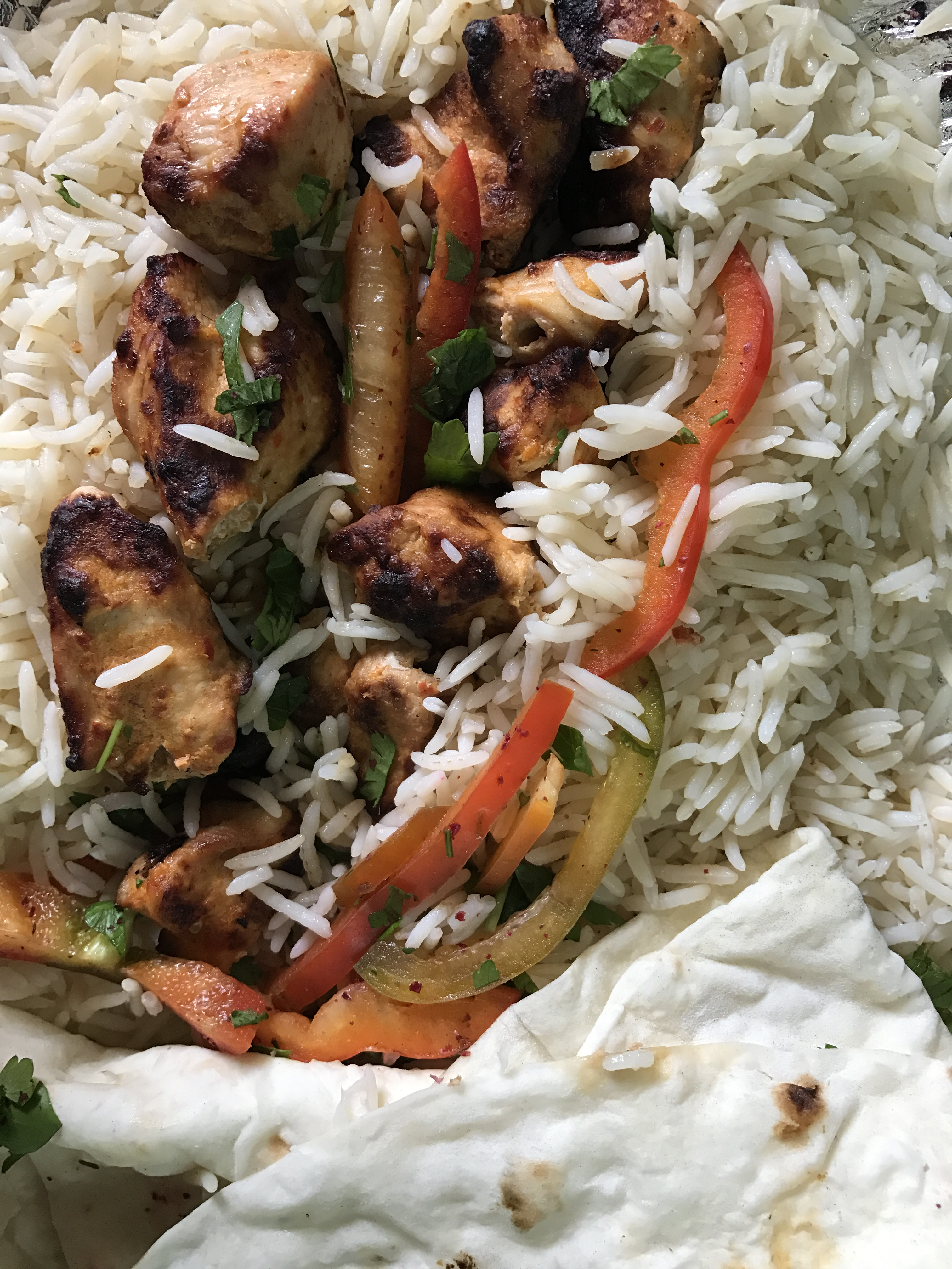 Shish Tawooq with rice and veggies from the Turkish Cuisine